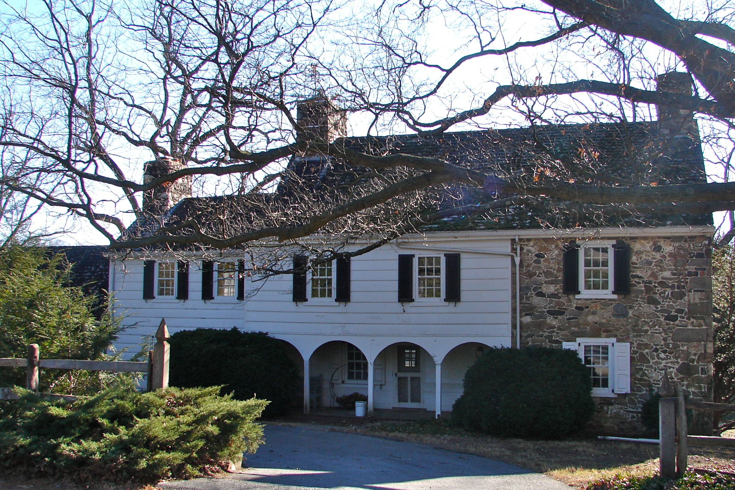 Merestone, an old house straddling the PA-Delaware Border on the NRHP since March 2, 1995. On Yeatman's Station Rd., New Garden Township, Chester County, Pennsylvania. On Yeatman's Mill Road (same Road) in New Castle County, Delaware. Built in stages including an 1800's log cabin a frame part, and two stone parts. Reconstructed rather than restored about 1940 by an architect with a remarkable name, R. Brognard Okie. Given the name at that time - meaning border stones. Before 1898 resurvey and 1923 legal implementation, it was all in Delaware, but some of the land was in PA.